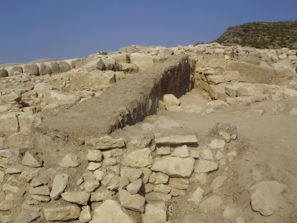 Tigrankert (Artsakh). Agdam Rayon, / Askeran province, Republic of Mountainous Karabakh.